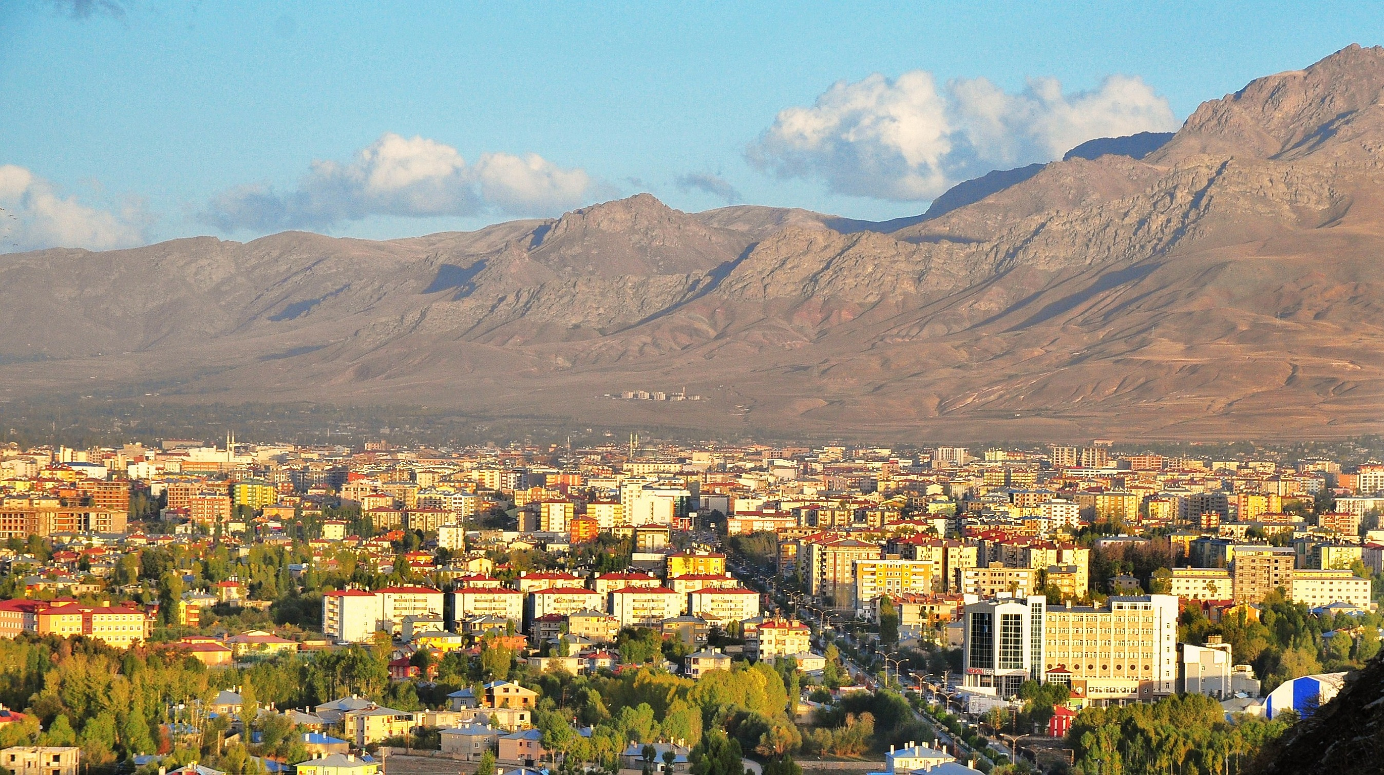 Van, Turkey